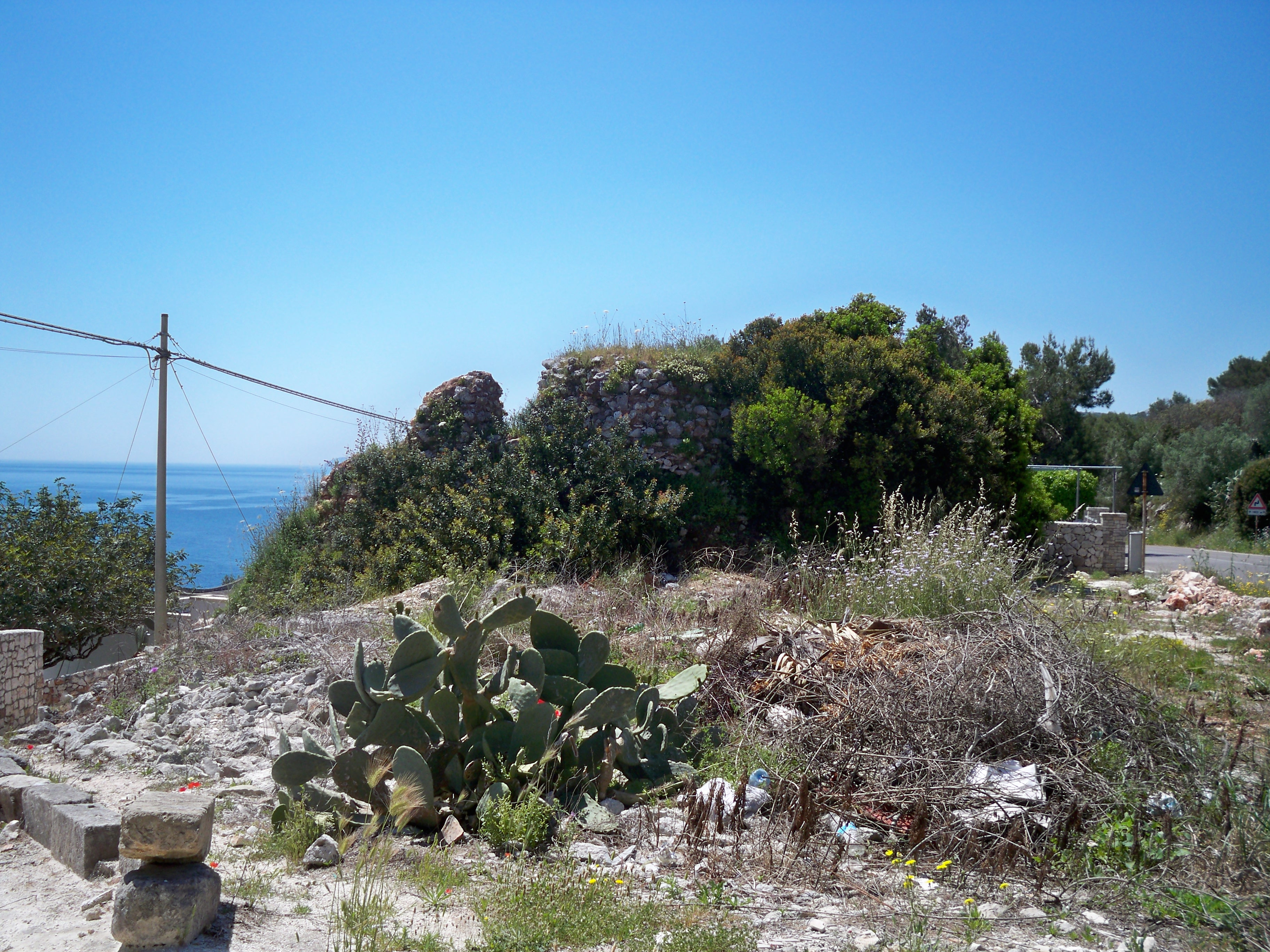 Castro (LE), Torre Diso